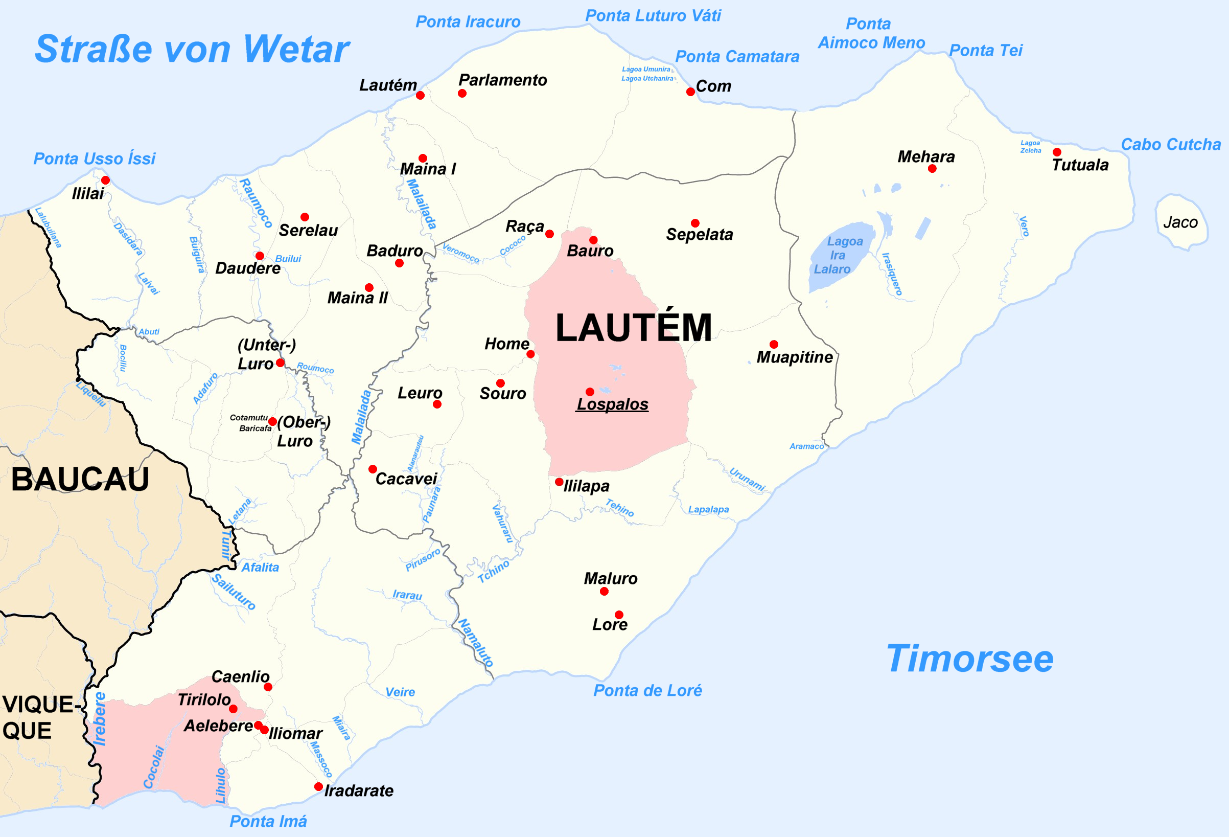 Cities and rivers of district of Lautém (East Timor). Urban sucos in pink.